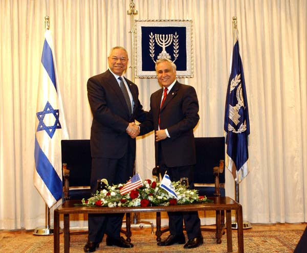 US Secretary of State Colin Powell with Israeli President Moshe Katsav.